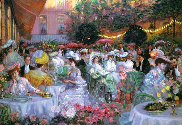 The hôtel, garden side, by Pierre Georges Jeanniot